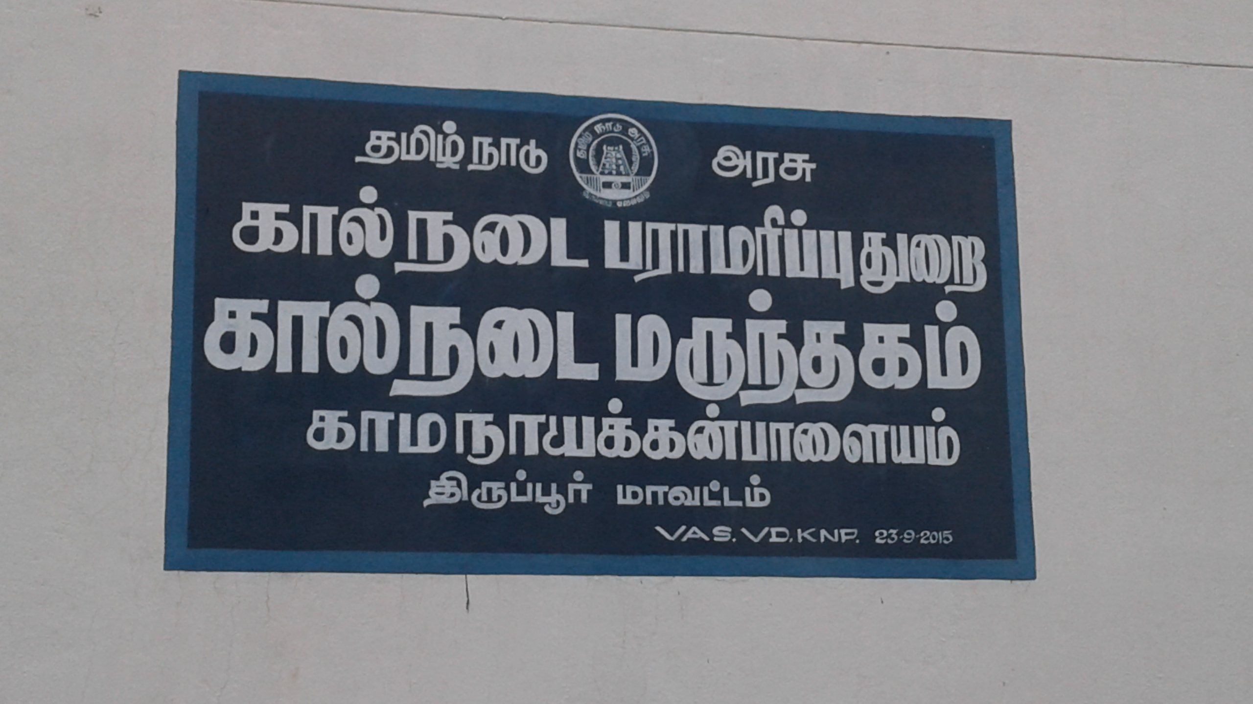 kamanaicken palayam town panchayath proof and evedence